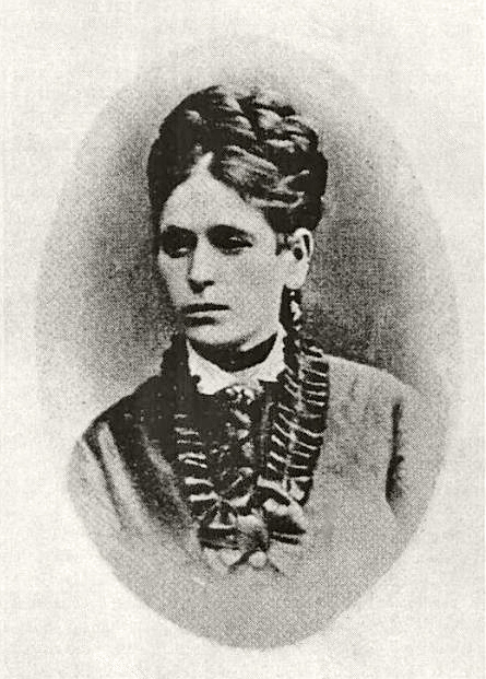 Miriam Markel Mosessohn (1839-1920), a Lithuanian Jewish girl, translator of books from German to Hebrew